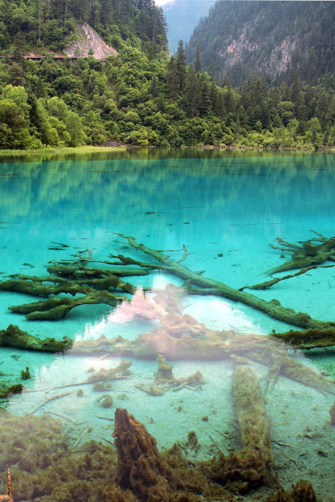 Jiuzhaigou Valley, China. A UNESCO World Heritage Site.